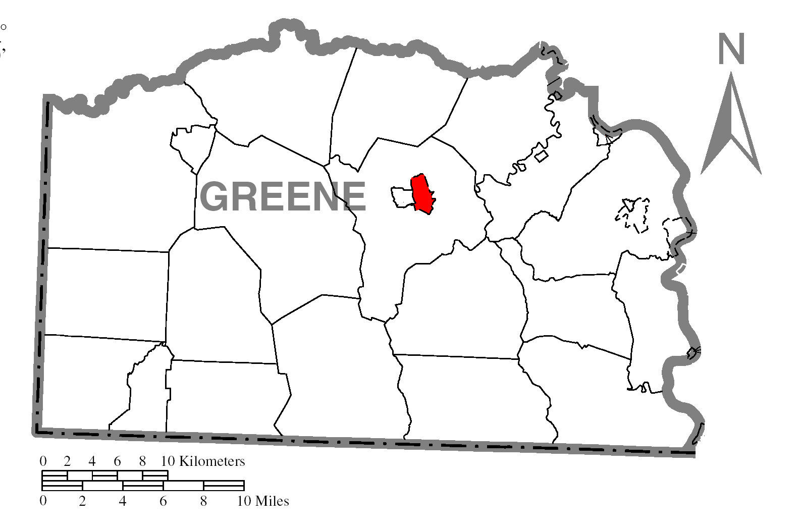 Map of Greene County higlighting Morrisville.